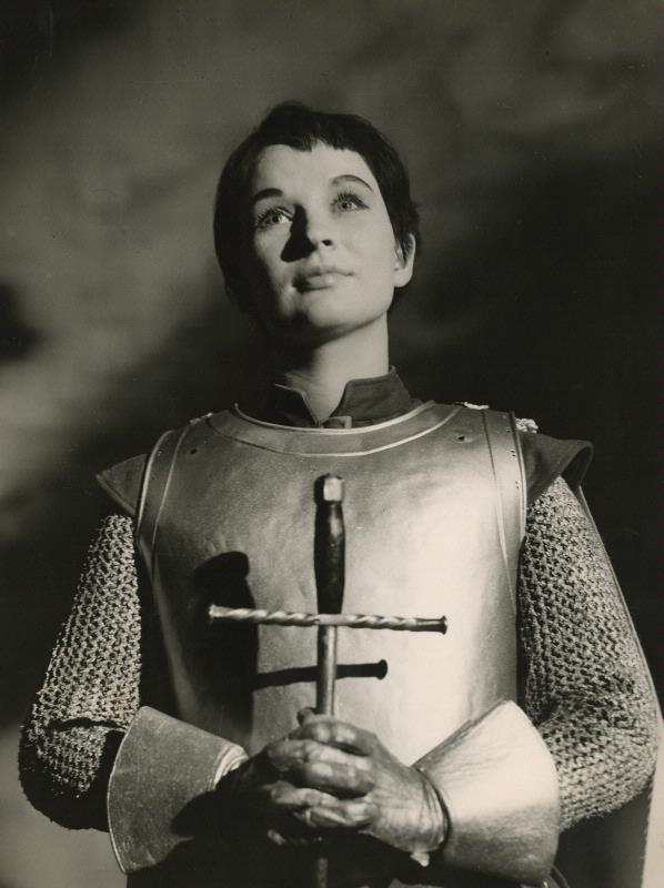 Margreth Weivers in George Bernard Shaw's play Saint Joan at Helsingborg City Theatre 1957.